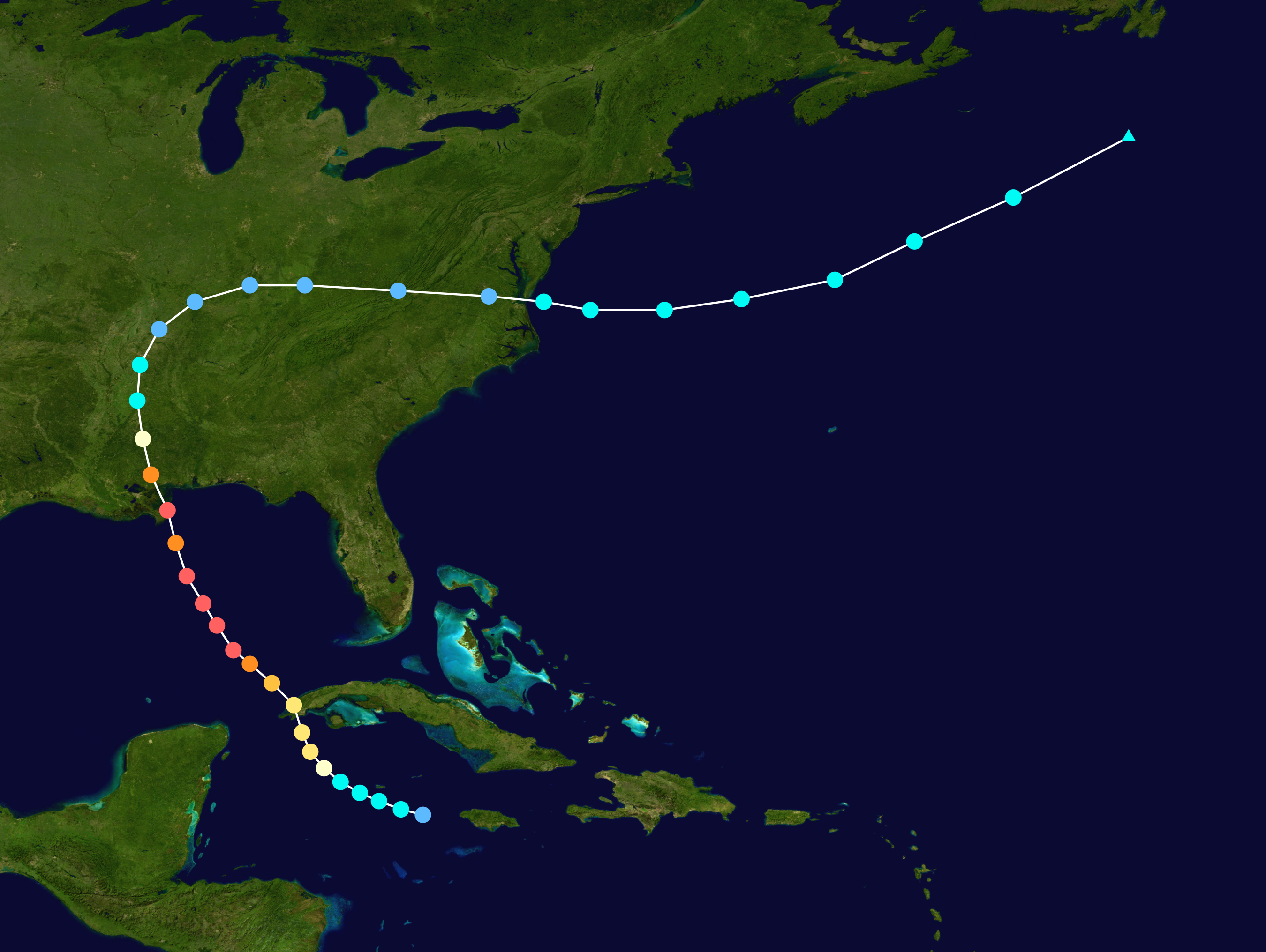 Hurricane Camille (1969) track. Uses the color scheme from the Saffir-Simpson Hurricane Scale.